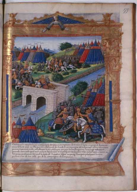 Die Schlacht bei Bouvines in 1214 - Guillaume Fillastre, La Toison d'or, 15-16. Jahrhunderte